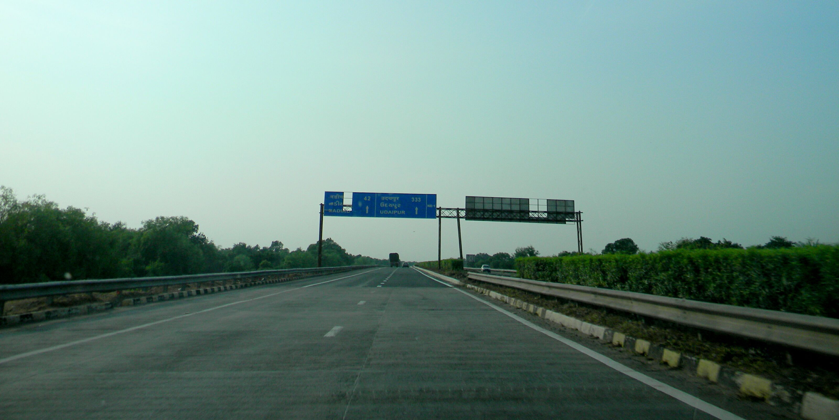 National Expressway 1 (Vadodara-Ahemdabad Expressway)